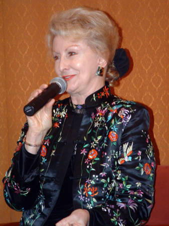 This image has been copied from the source with the permision of webmaster (and with the consent of the director of the service). The permission was granted to Stan Zurek (Zureks) via email from Mirosław Domański Jadwiga Barańska